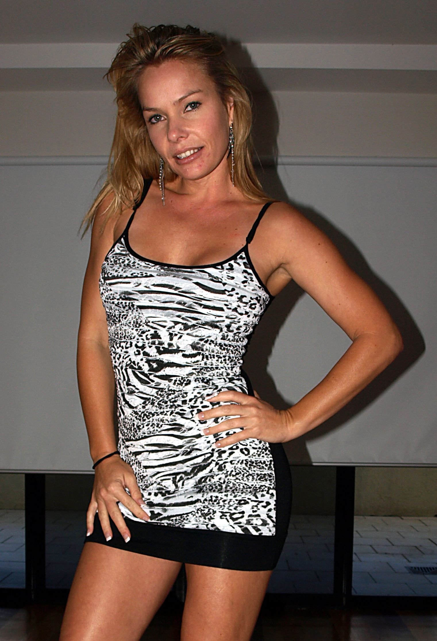 Jodie Moore 2011